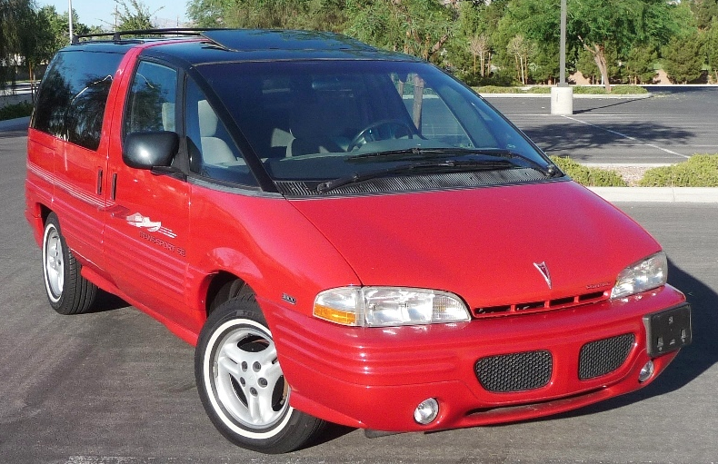 Pontiac TransSport SE minivan, 1995